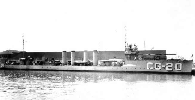 On Coast Guard service during the Prohibition Era